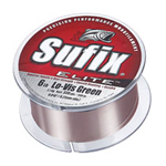 zilka ")